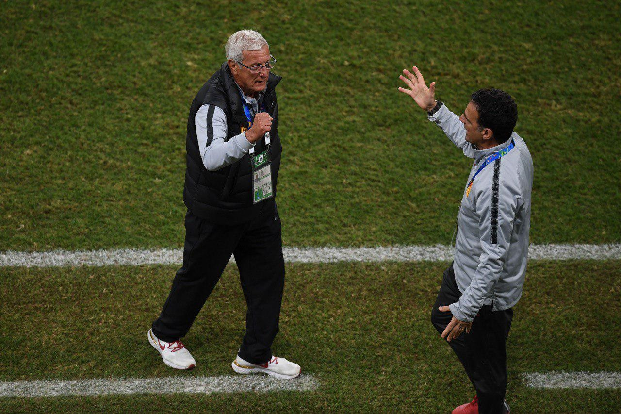 Thailand & China PR Round of 16, 2019 AFC Asian Cup